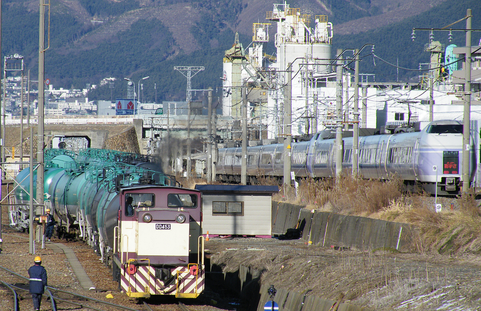 Oil freight cars pushed by switcher type DD45(No.453) at Minami Matsumoto Sta., Nagano, Japan.